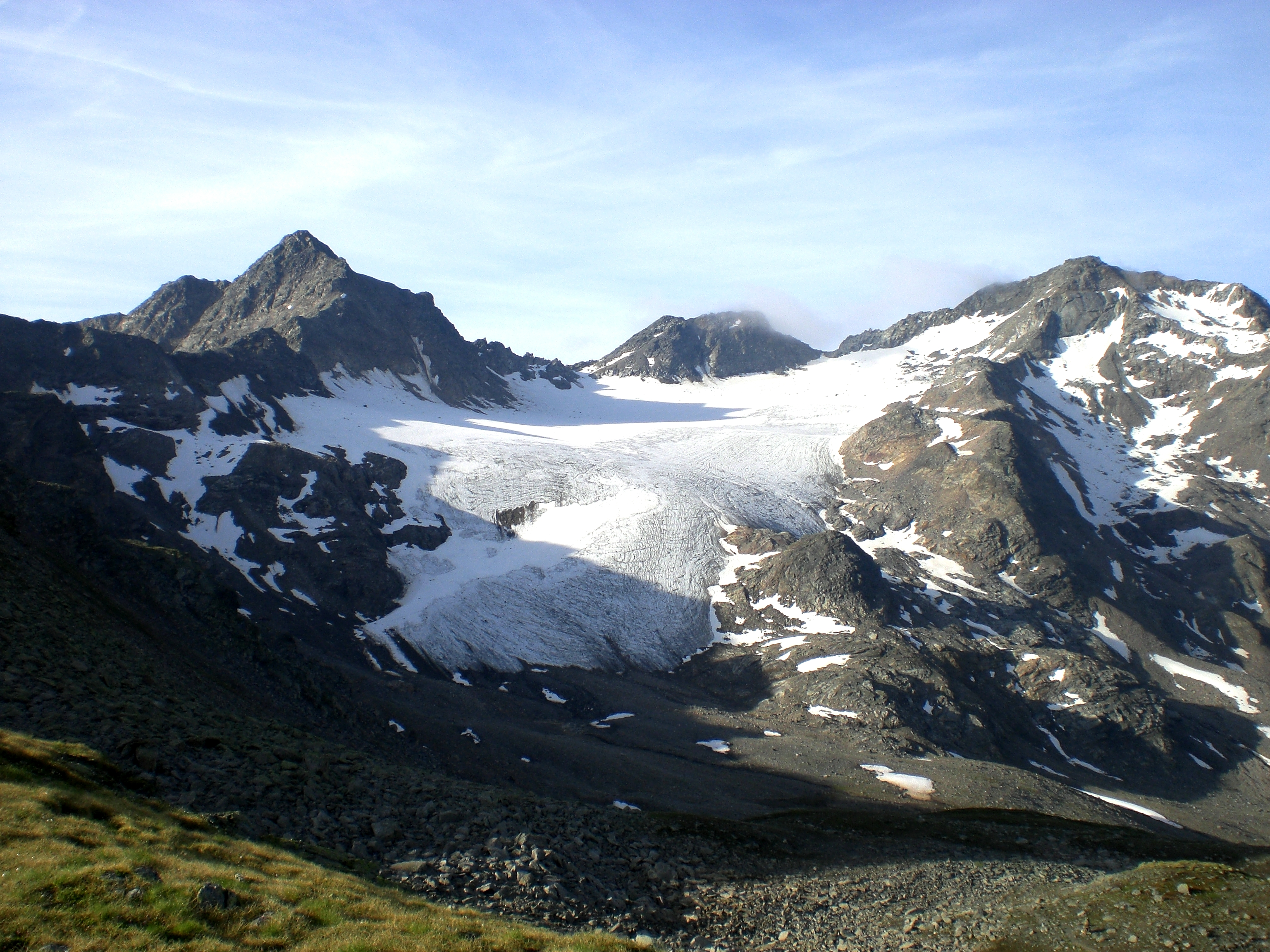 Piz Sesvenna, Sesvenna range